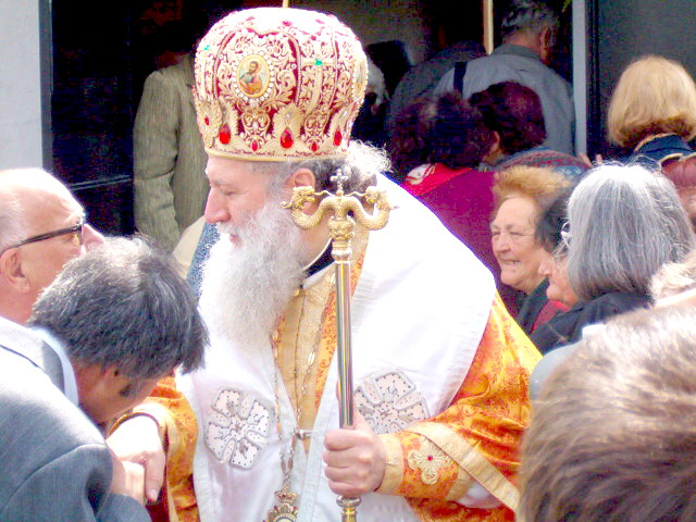 Inauguration of the newly built chapel in village Svetlen, Popovo region, devoted to the Russian casualties in 1877